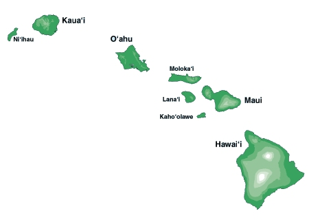 Hawai‘i main islands